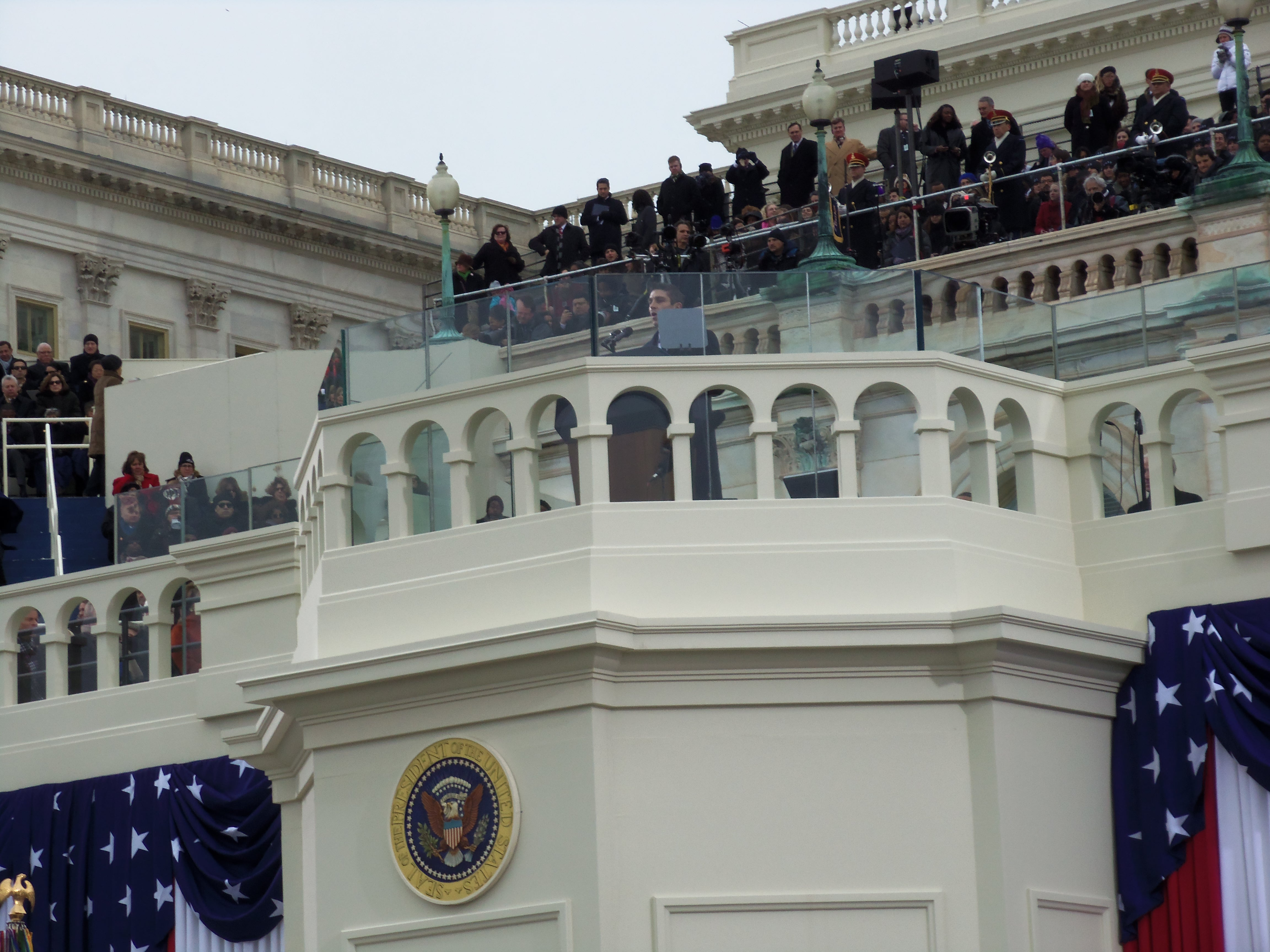 2013 Inauguration of President Barack Obama. View from the lower platform on the West Front of the United States Capitol. Poet Richard Blanco reads his poem written for the occasion.